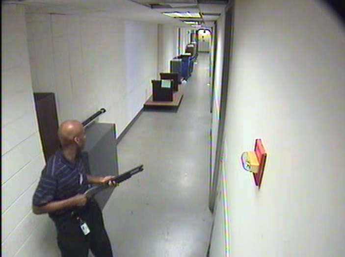 Alexis moves through the hallways of Building #197 carrying the Remington 870 shotgun.